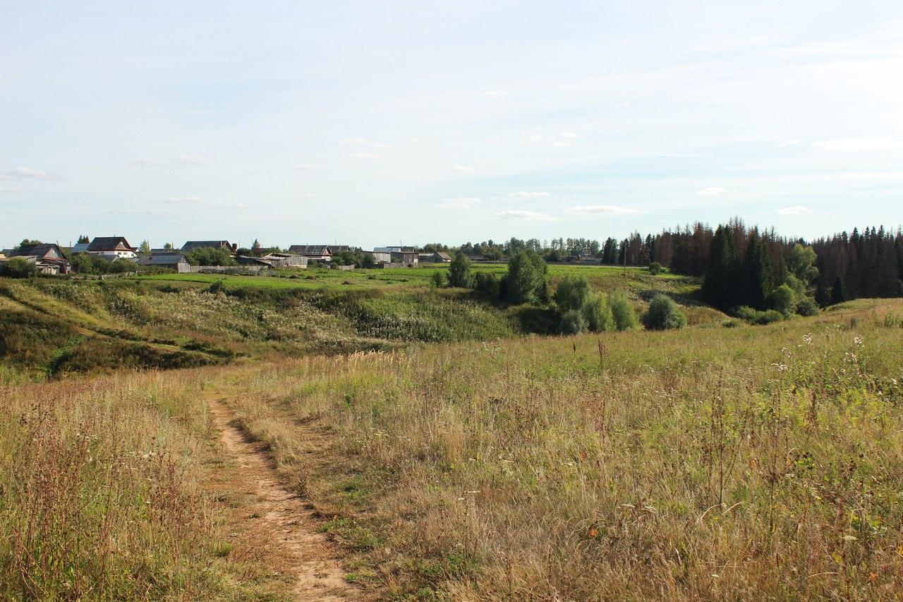 Kechevo (Malopurginsky District)